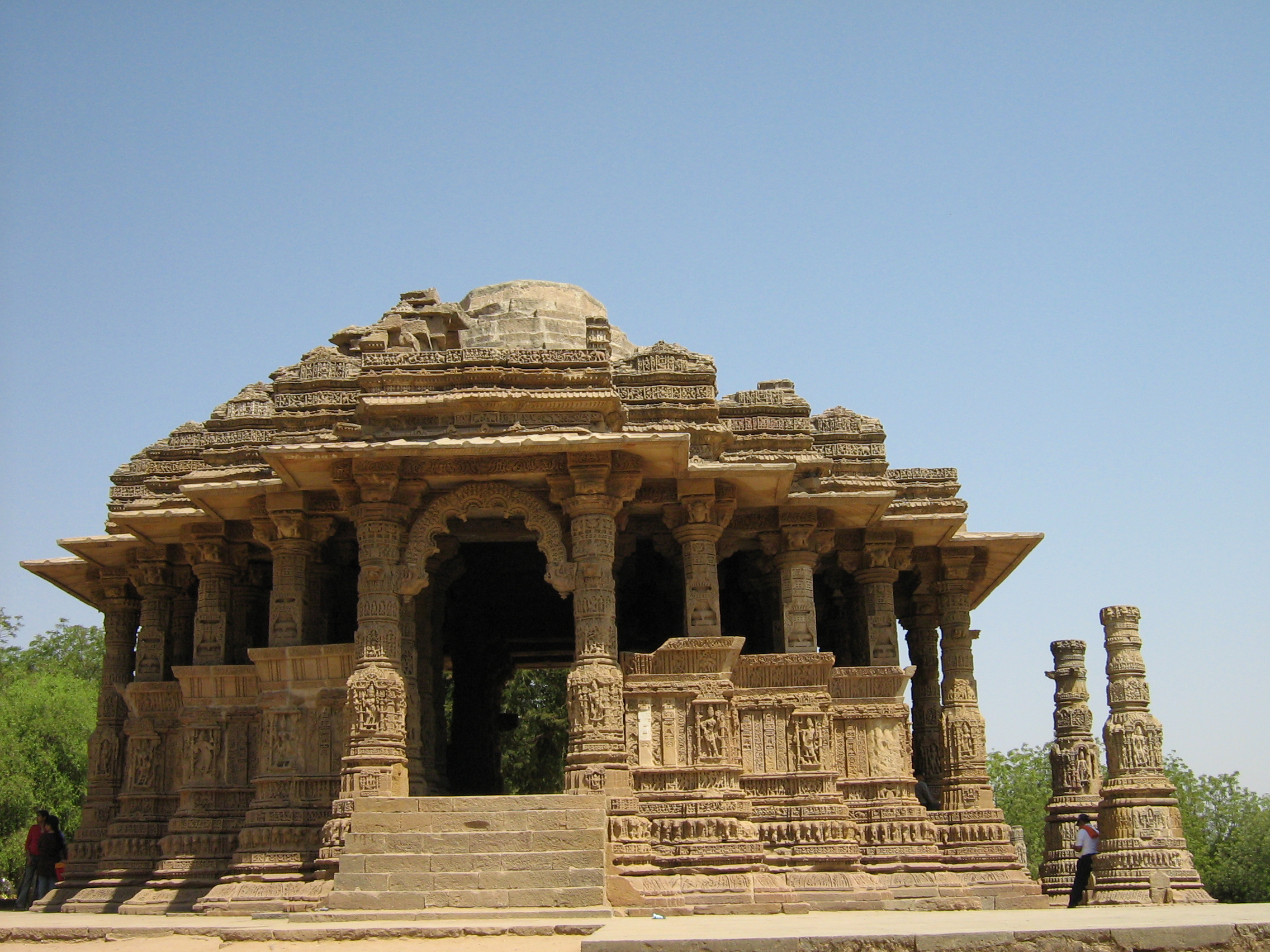 The Sabha mandap (Assembly Hall) of Sun Temple at Modhera, Gujarat, India.